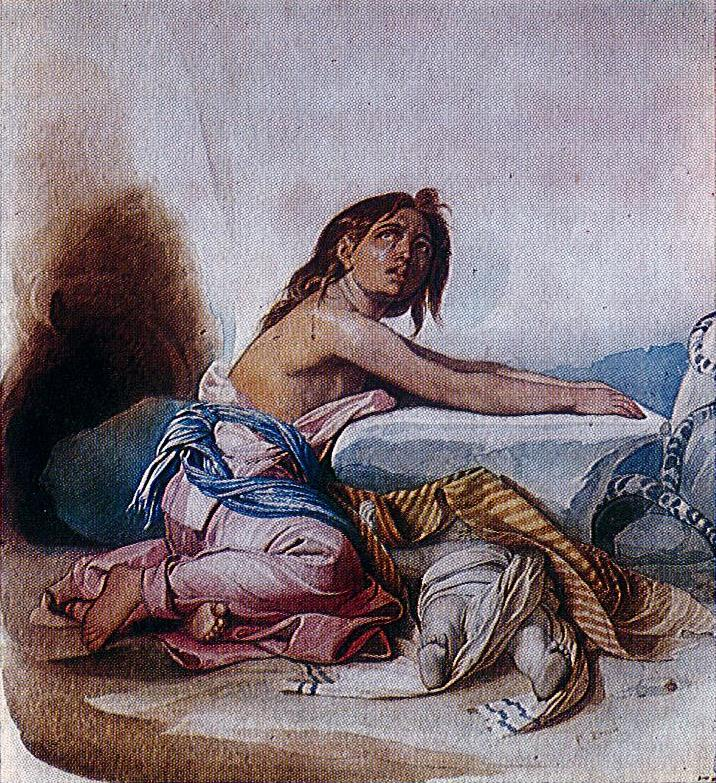 Girl at a stone (study for "Brazen Serpent", by Fyodor Bruni)